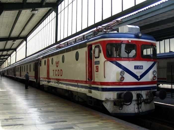 The Eastern Express waiting to depart Ankara station in 2004.